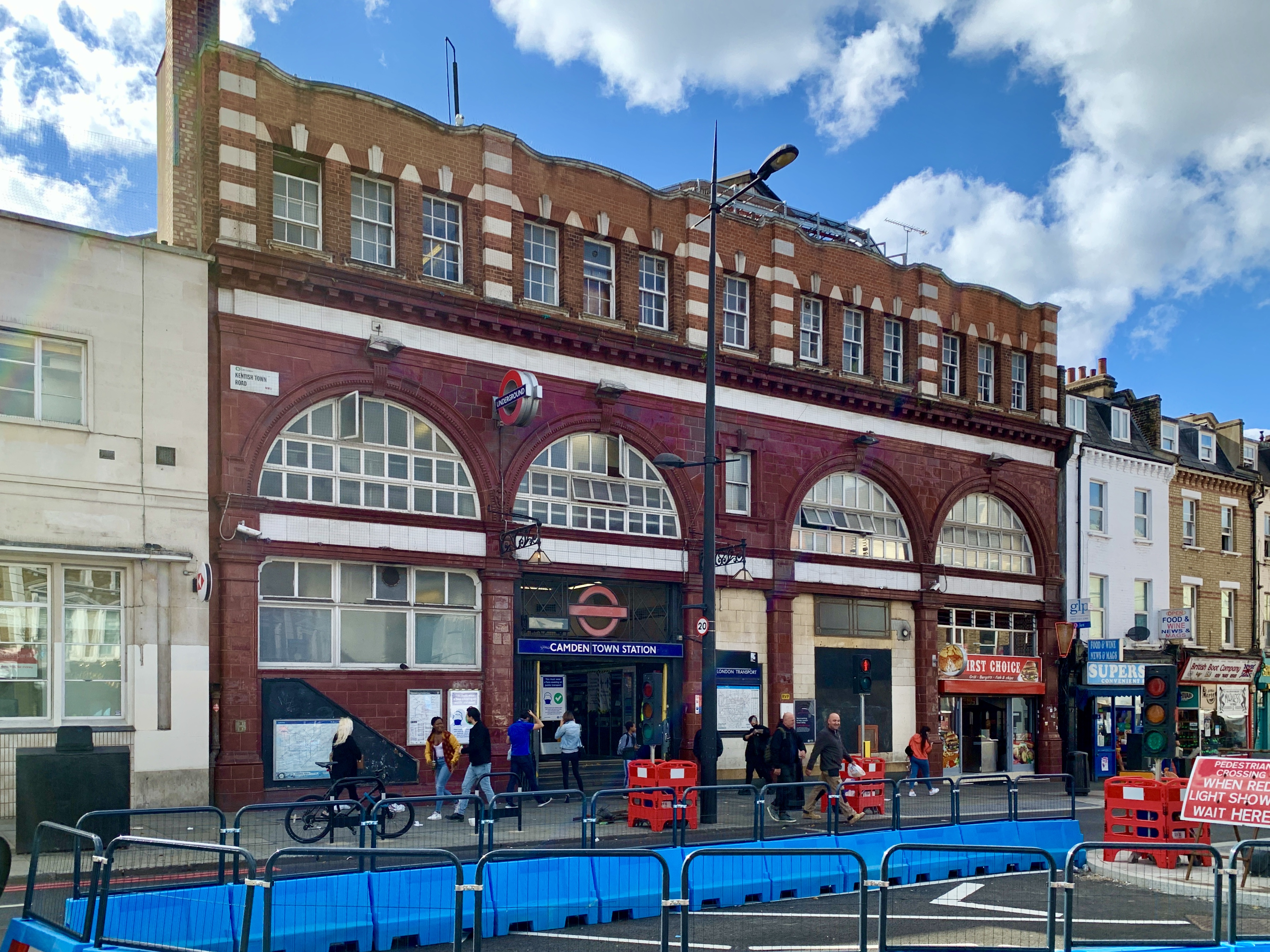 Side view of the eastern side of the entrance building to Camden Town tube station Taken during my Northern Line Tube Walk.